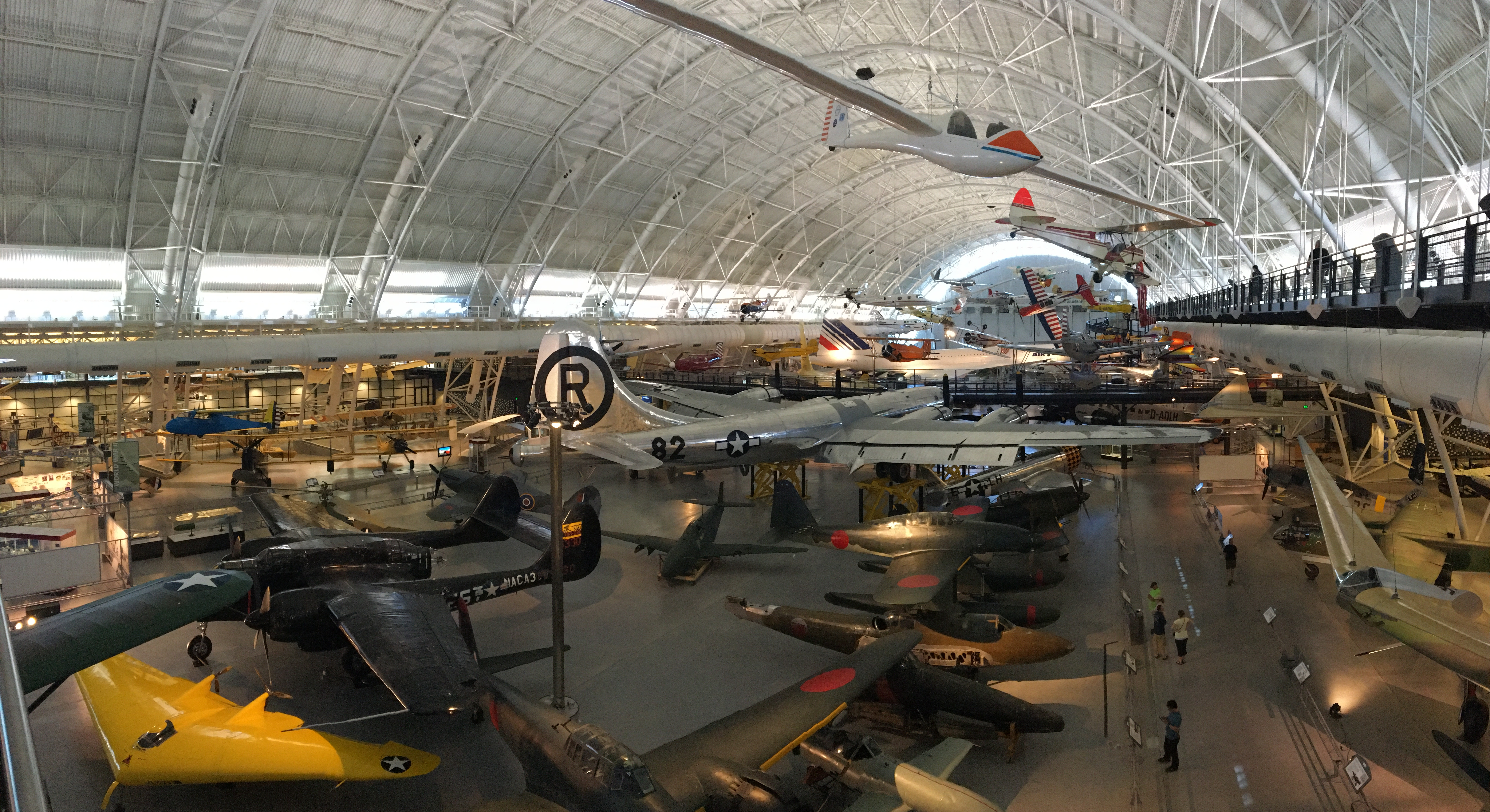 View of South Hall includes Air France Concorde (distance- white) and Enola Gay (center, silver)